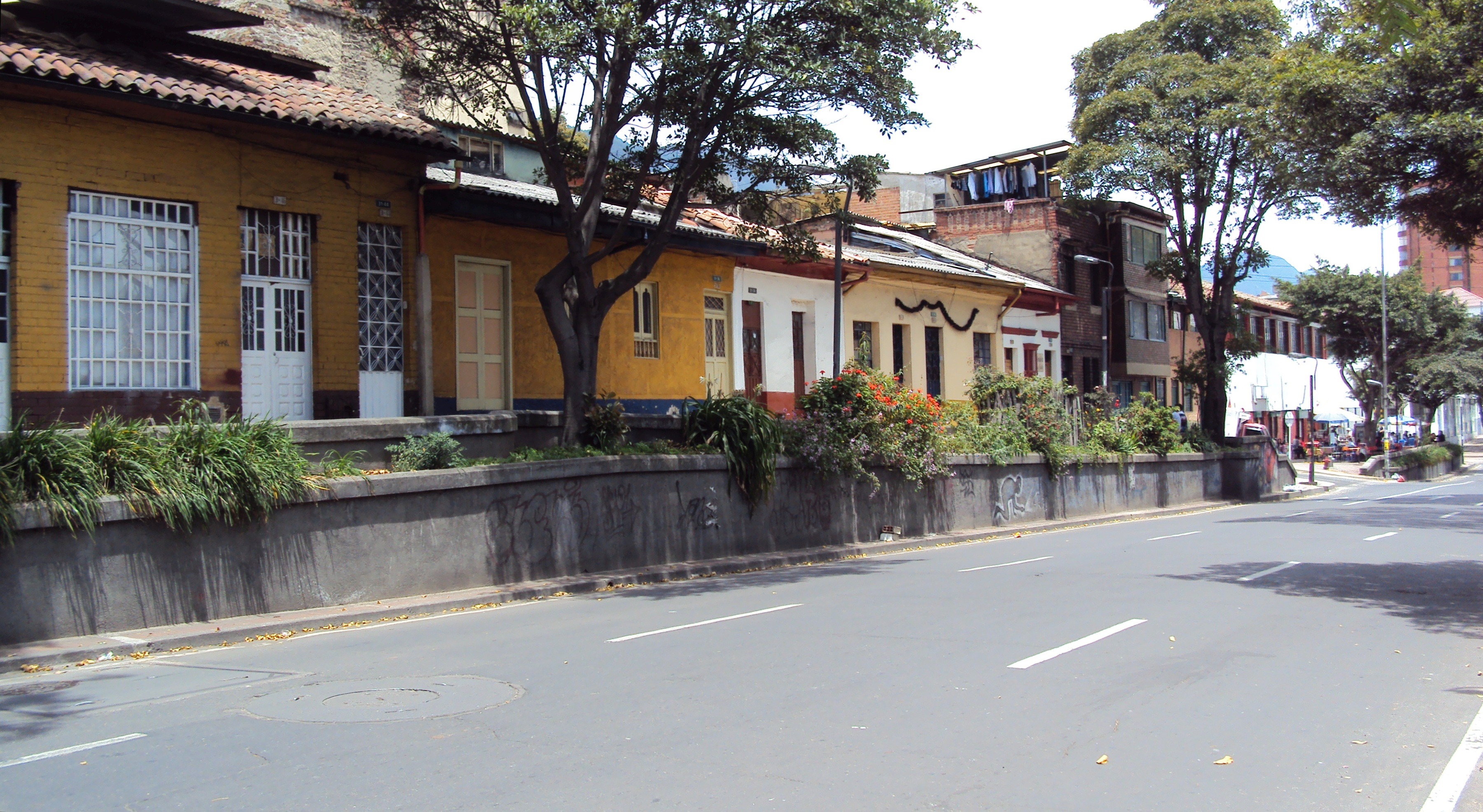 A stretch of Carrera 5 en La Perseverancia near La plaza de mercado de La Perseverancia which can be seen in the distance